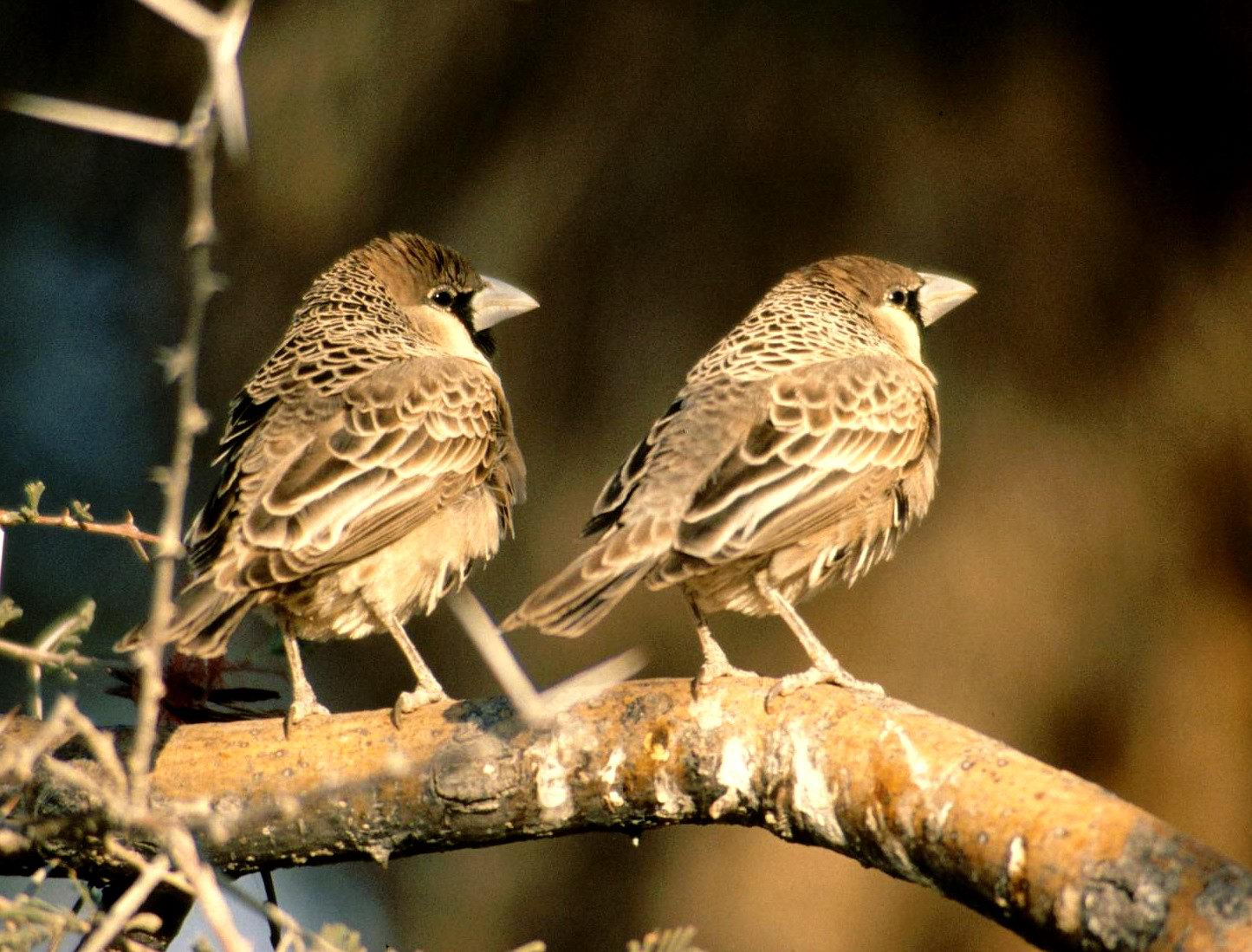 Sociable Weaver (Philetairus socius), Okaukuejo, Etosha National Park, Namibia